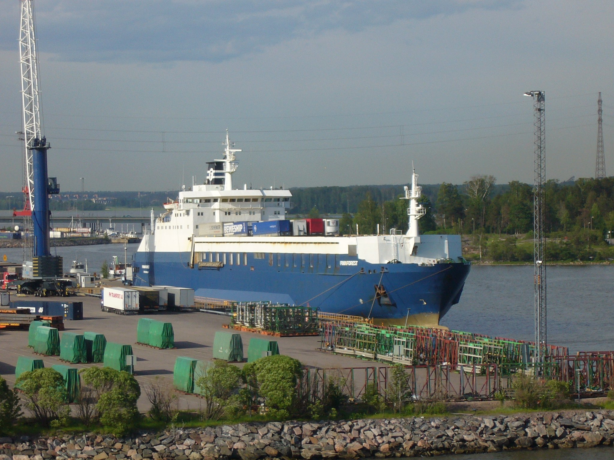 Swedish RORO cargo ship M/S Finnforest in Helsinki.